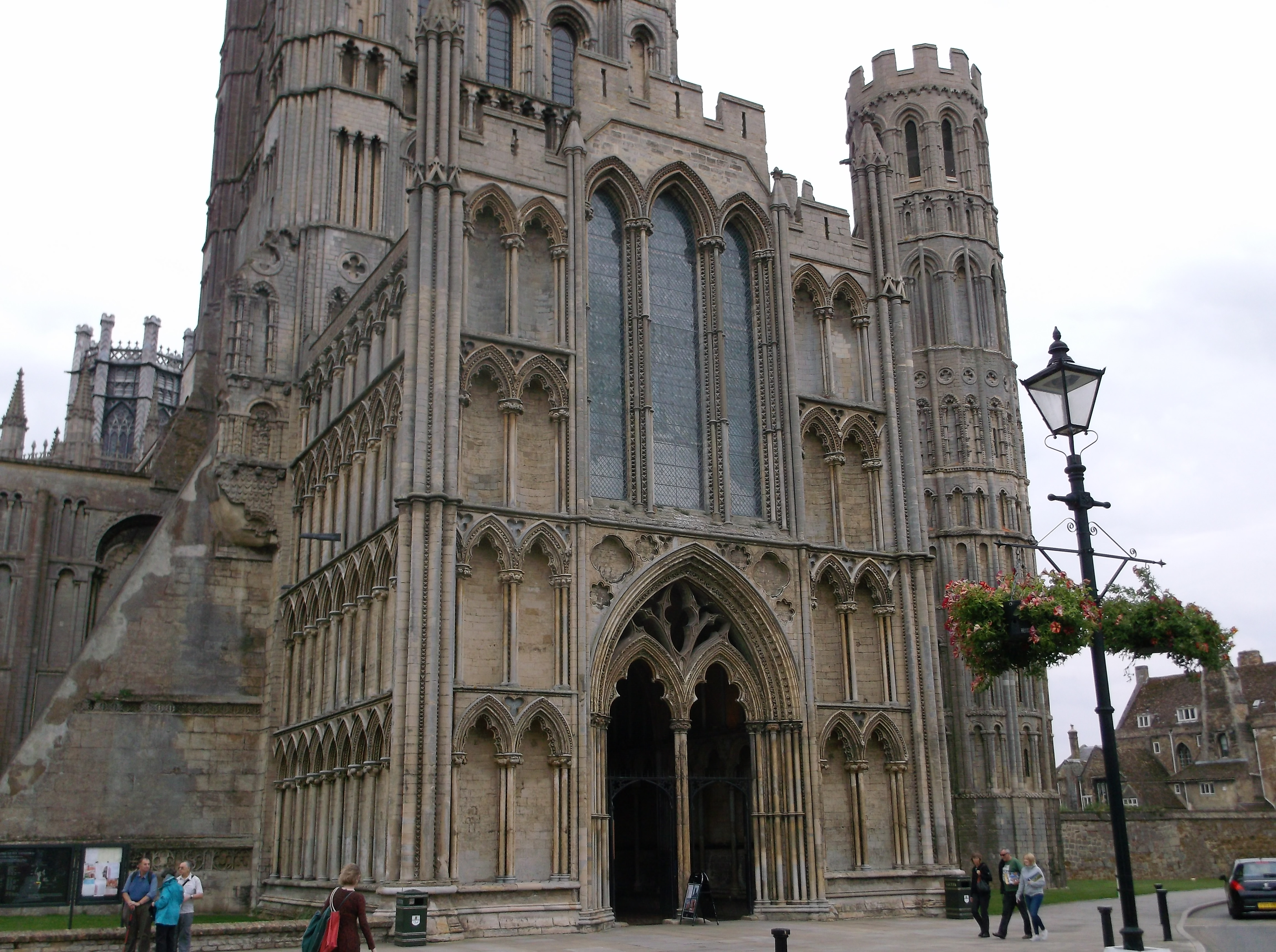 Ely Cathedral (Cathedral of the Holy Trinity)